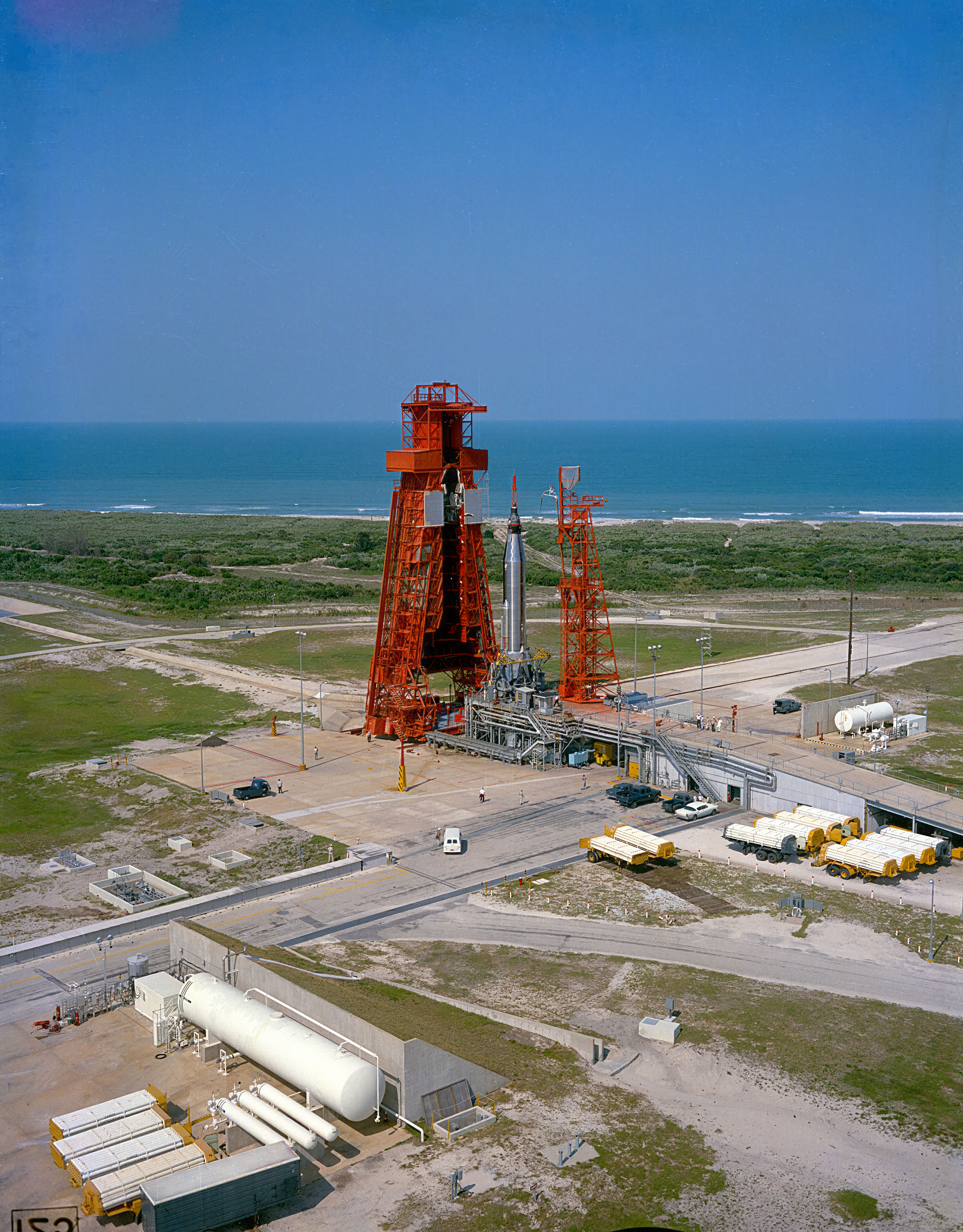 Aerial view of Launch Complex 14 with Missile Row visible to the right. Mercury-Atlas 9 (MA-9), visible on Pad 14, is scheduled to carry astronaut Gordon Cooper for the fourth manned orbital mission.